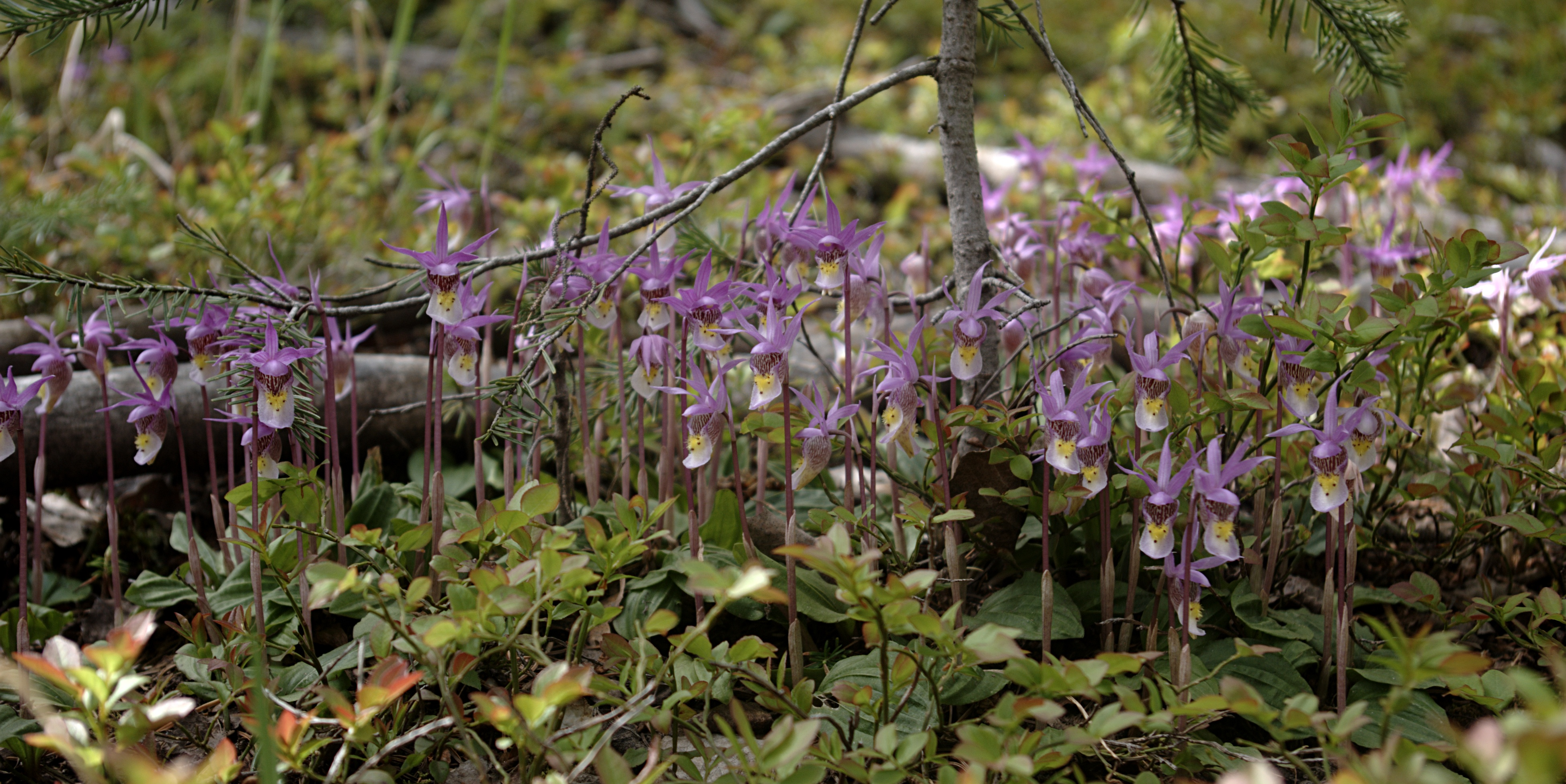 Cluster of calypso orchids or fairy slippers, Calypso bulbosa var, americana, in bloom, Winsor Trail, near the Santa Fe Ski Basin, Santa Fe County, New Mexico.